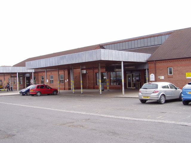 Bridlington Hospital, Bridlington, East Riding of Yorkshire, England.Main entrance.